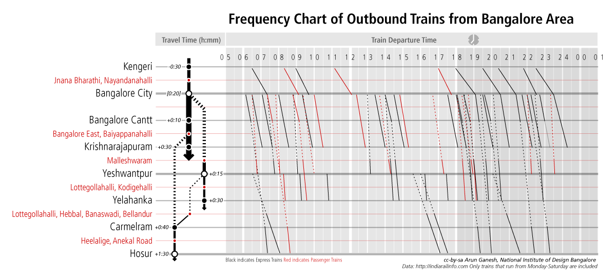 Frequency Chart of the daily outbound trains from Bangalore city area, India from 5am to 1am. The visualization of the timetable is based on Étienne-Jules Marey's train schedule from Paris to Lyon. The graphic represents the non-linear railway network of the Bangalore and its suburbs in a linear fashion for simplified reading. The idea behind the graphic was to get a better understanding of the frequency of trains in a particular section to find out if the trains can be used as an alternative mode of transport by commuters for travel within the city. Bangalore currently does not have a suburban rail network and the population depends primarily on road transport for commuting. Data source